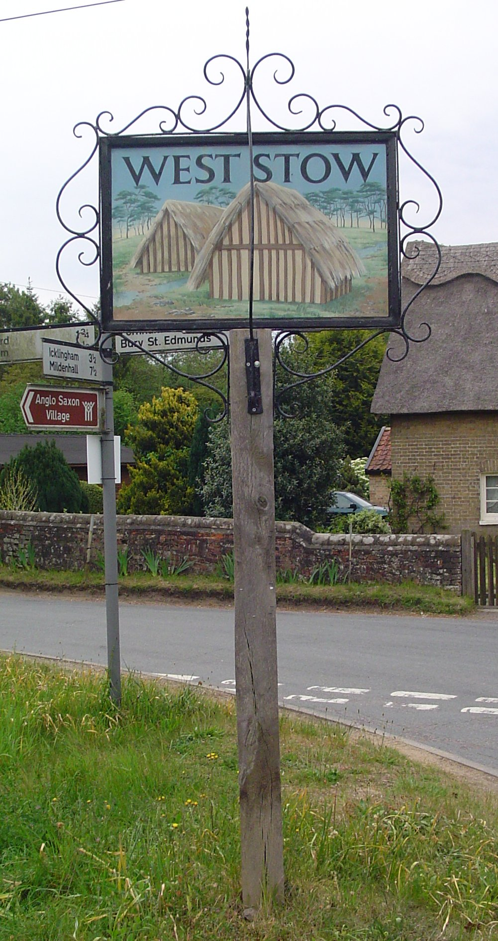 Signpost in WestStow